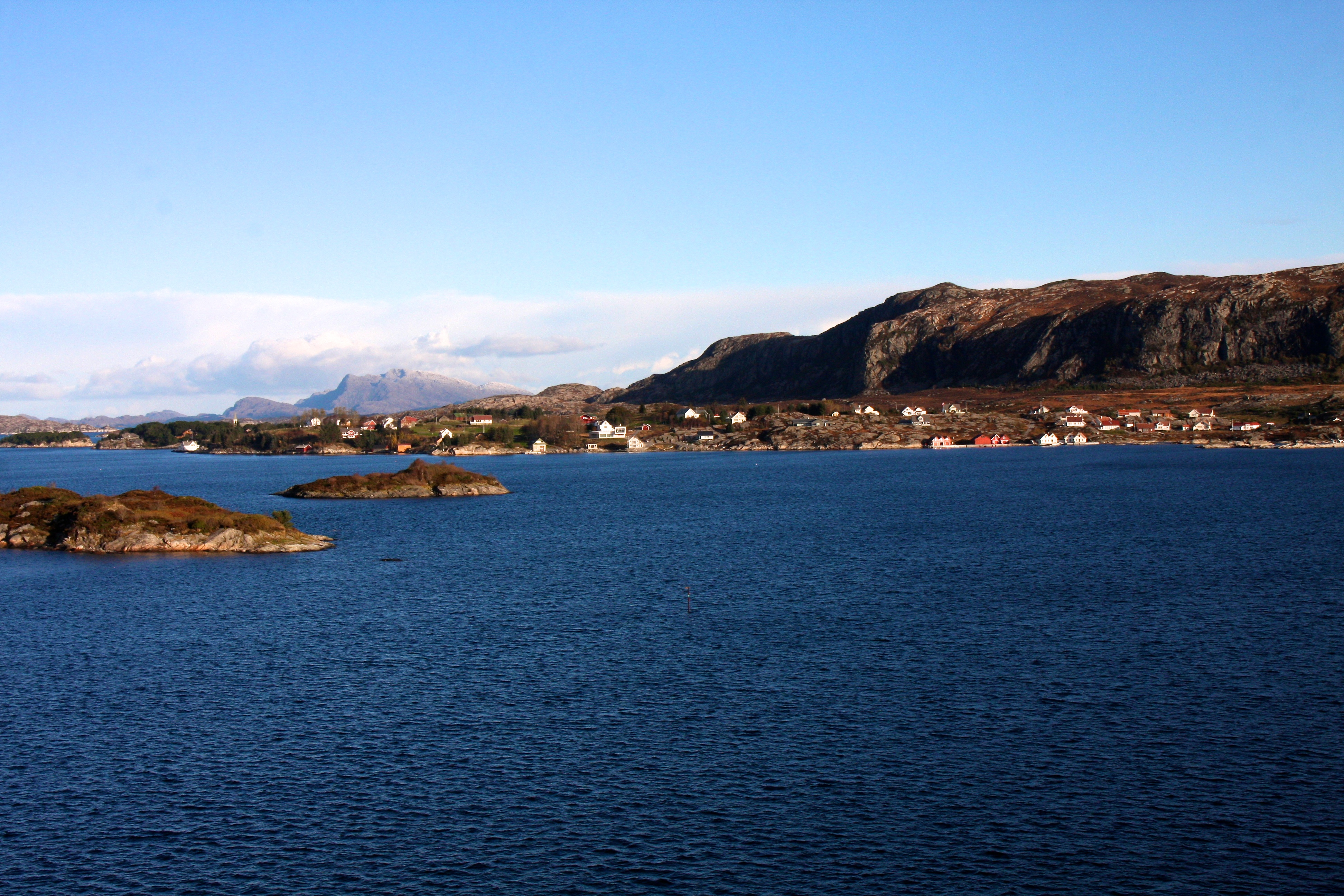 Gulen municipality, Norway.